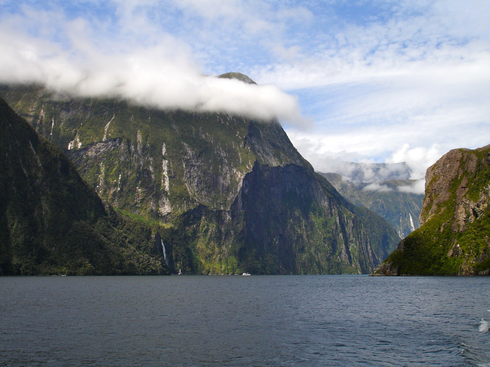 Milford Sound